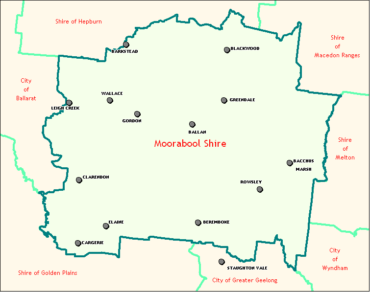 Self-made map